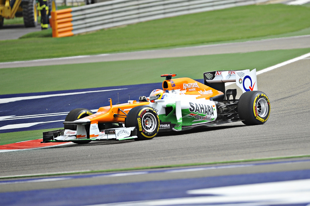 Paul di Resta at the 2012 Bahrain Grand Prix.